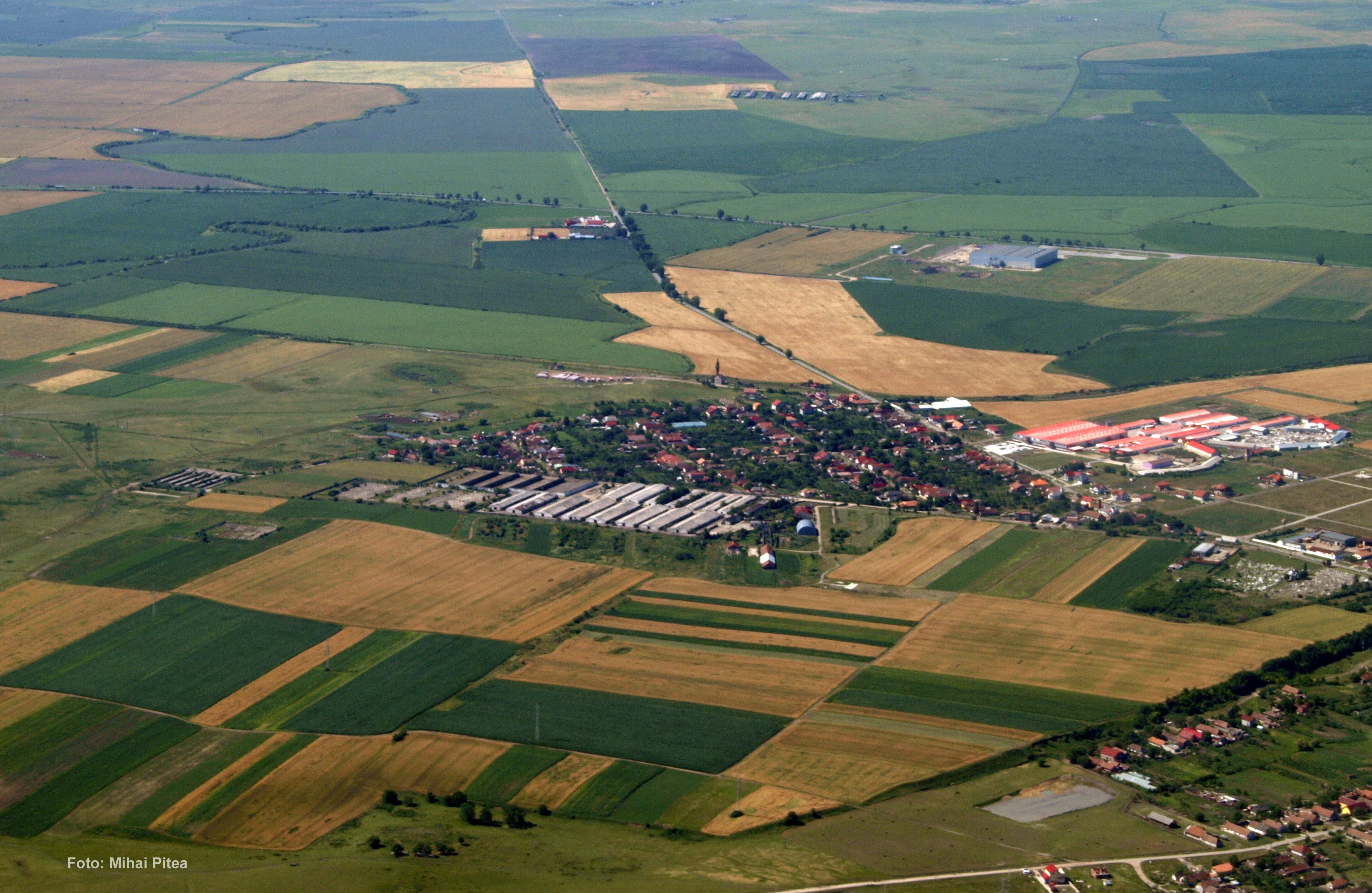 Aerial photograph of Dudeștii Noi commune, Timiș County, Romania. Partial view only.